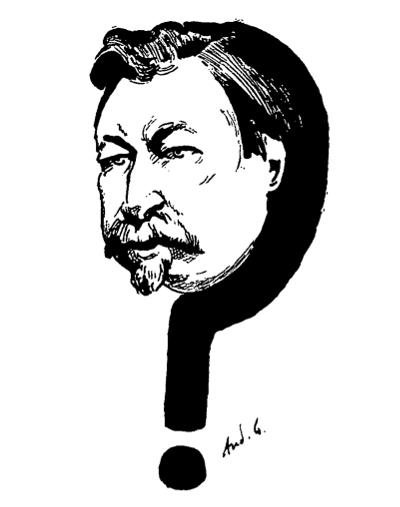 French politician François de Mahy (1830-1906) by André Gill (1840-1885)